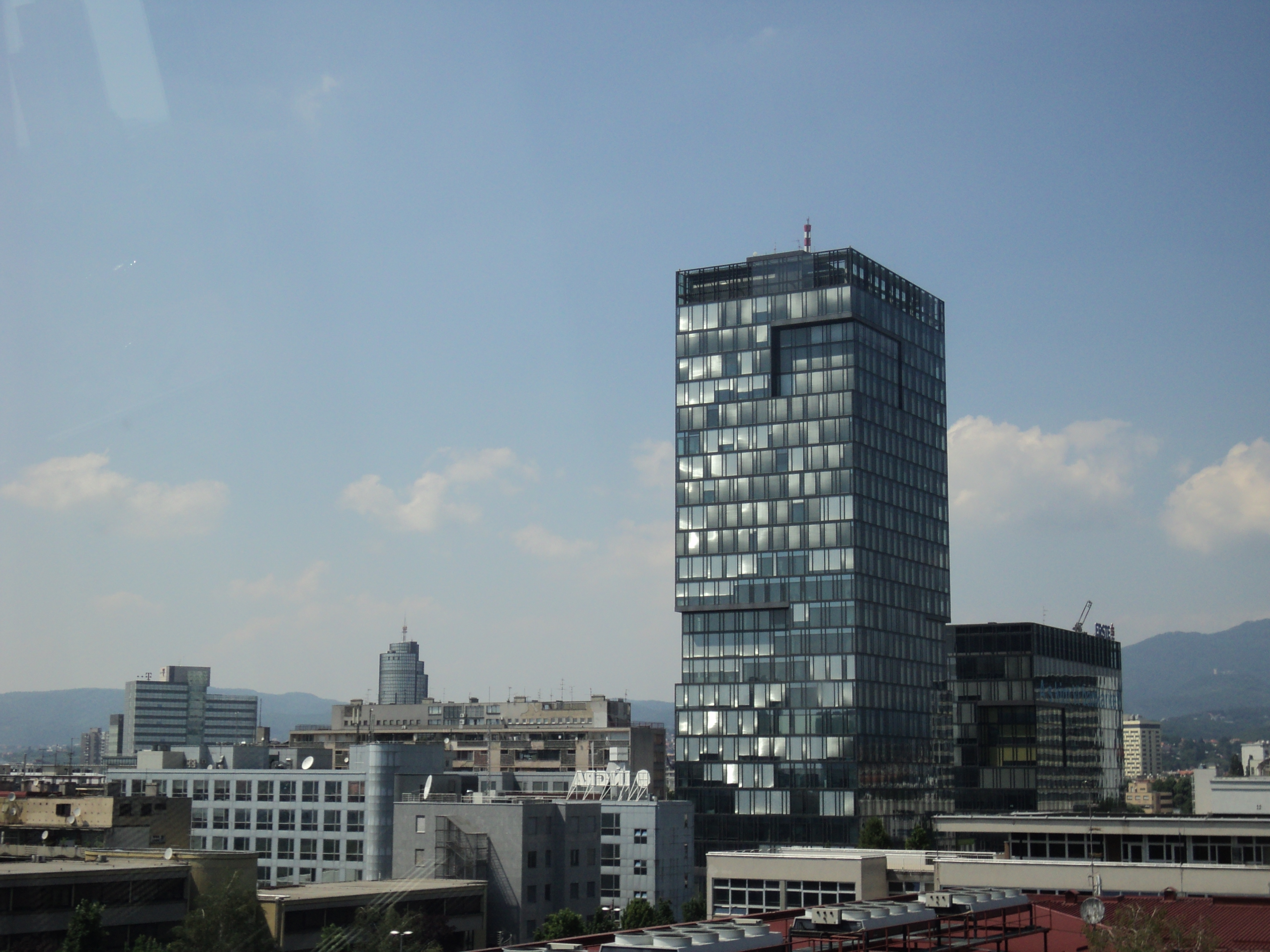 Zagreb's skyline from Trnje.